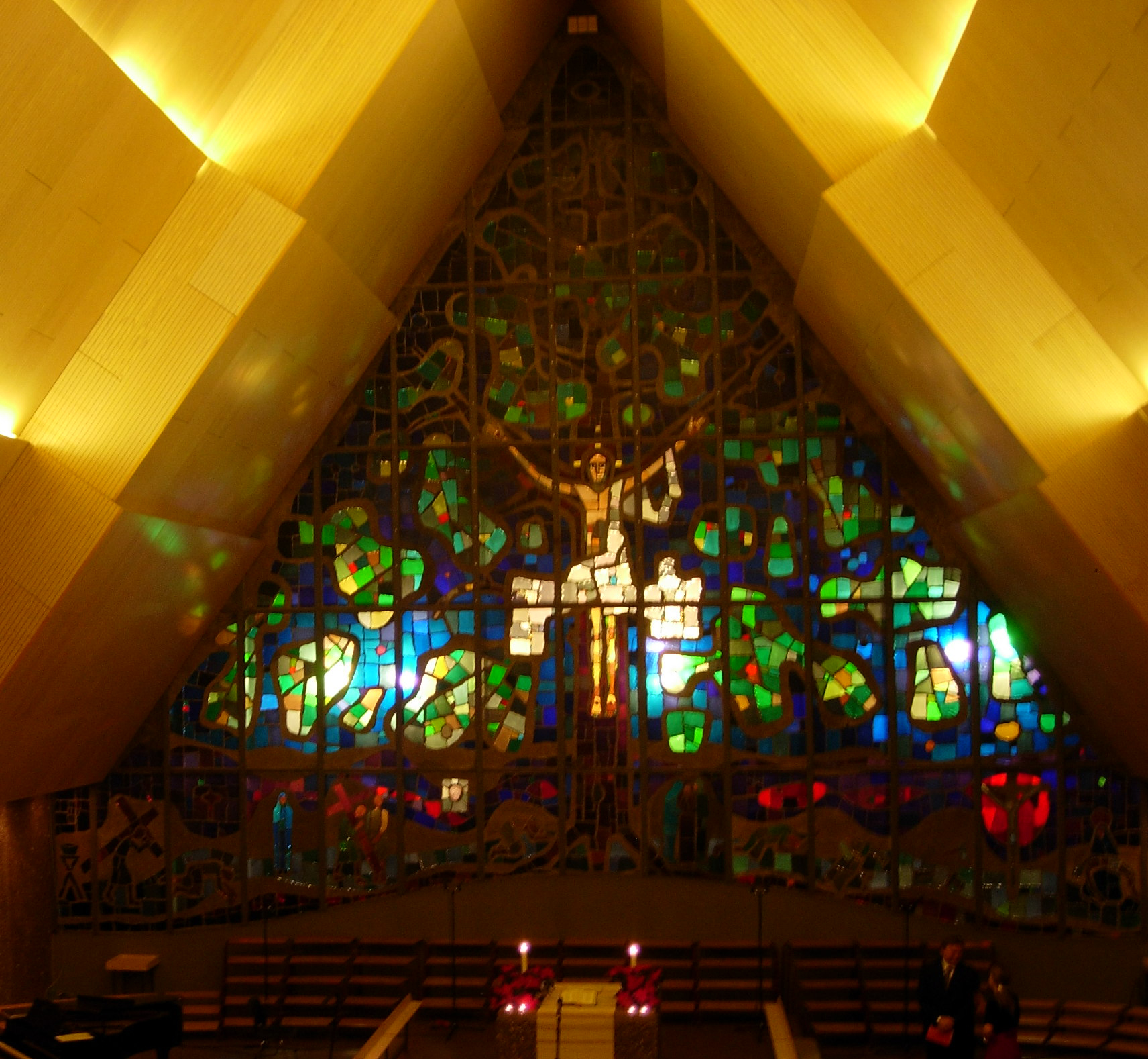 From inside of Jeløy kirke